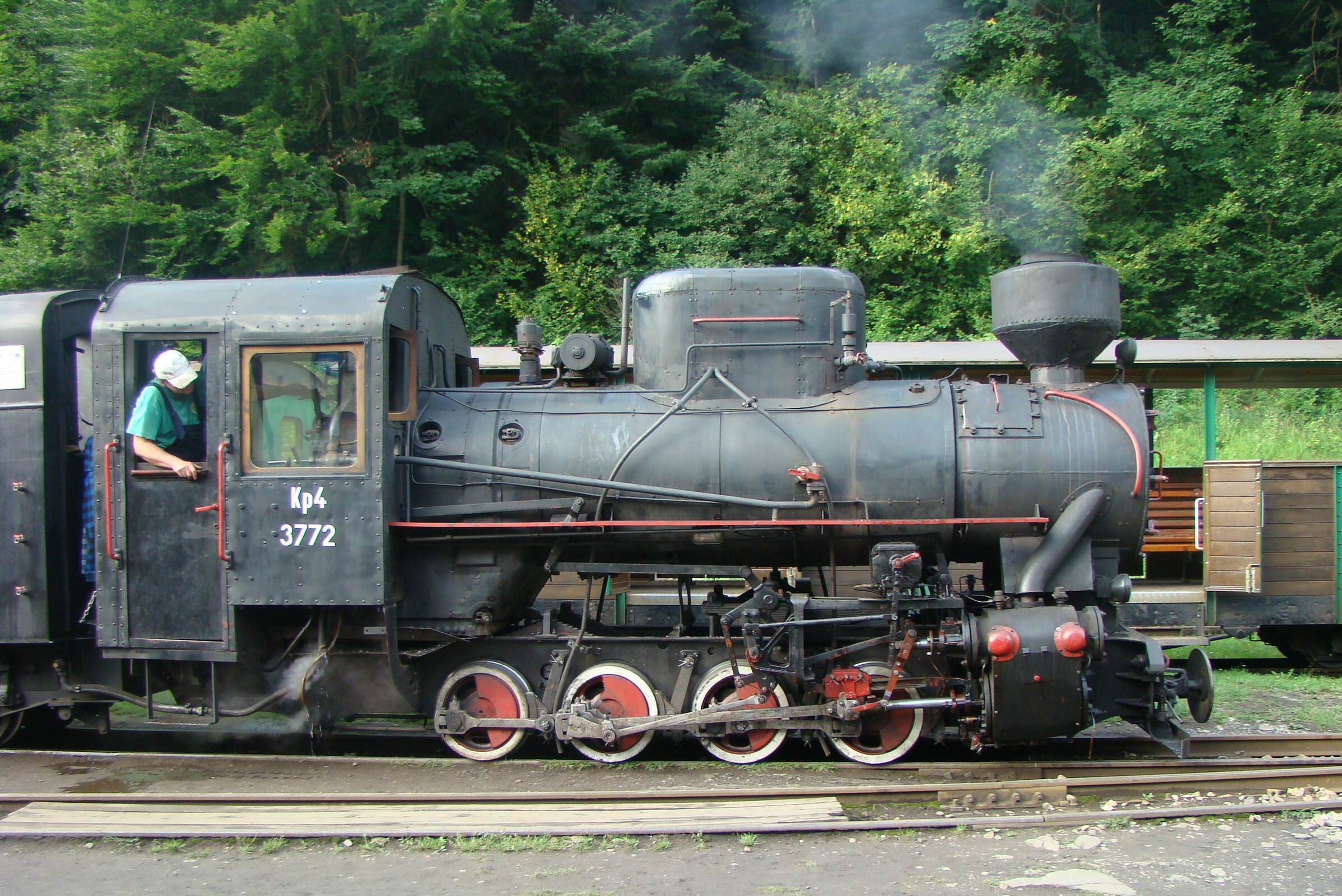 Kp4-3772 locomotive of Bieszczady Forest Railway at Majdan station